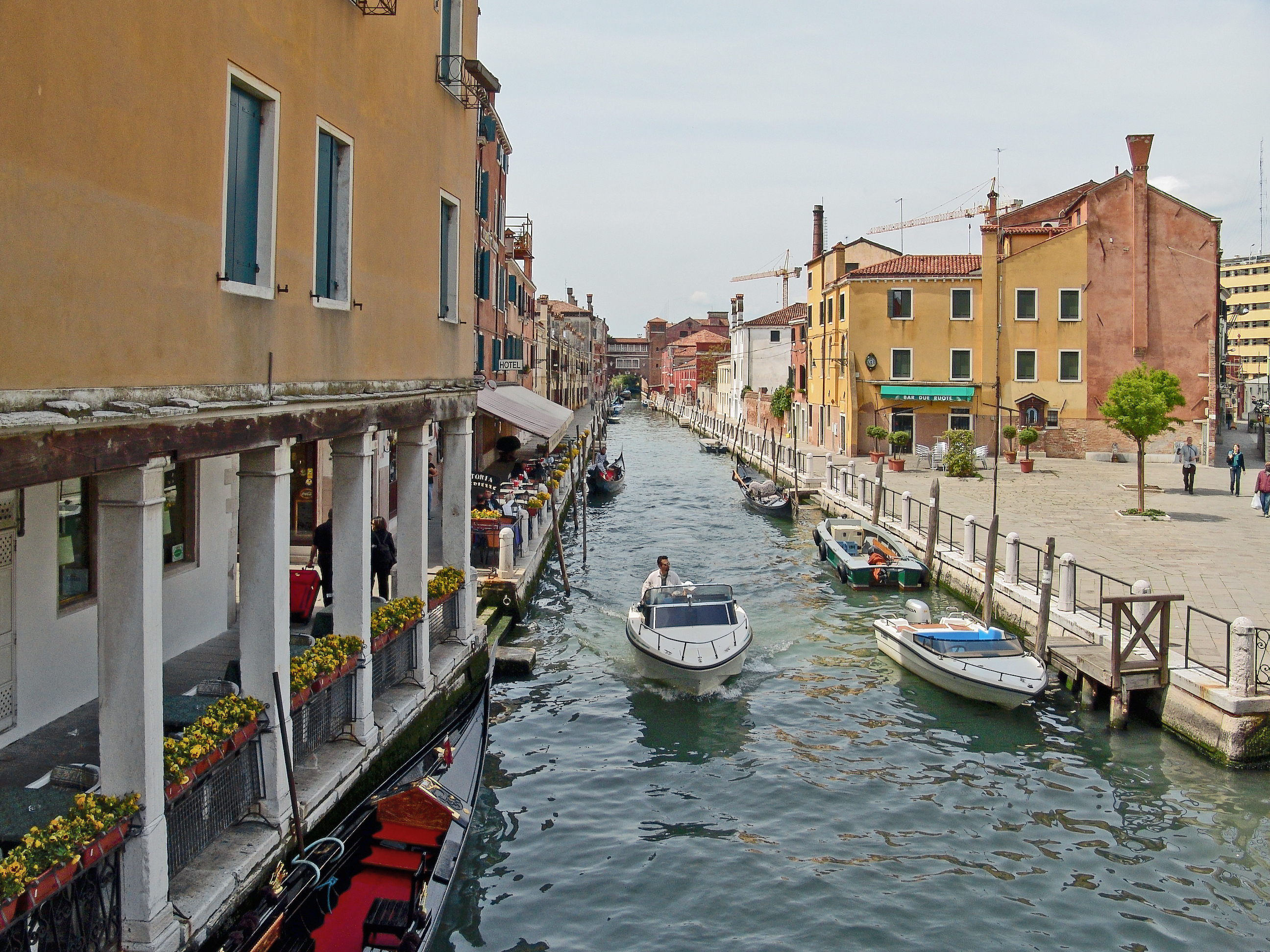 Rio de le Burchiele, Venice